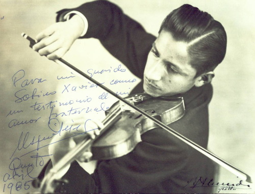 picture of composer Enrique Espín Yépez